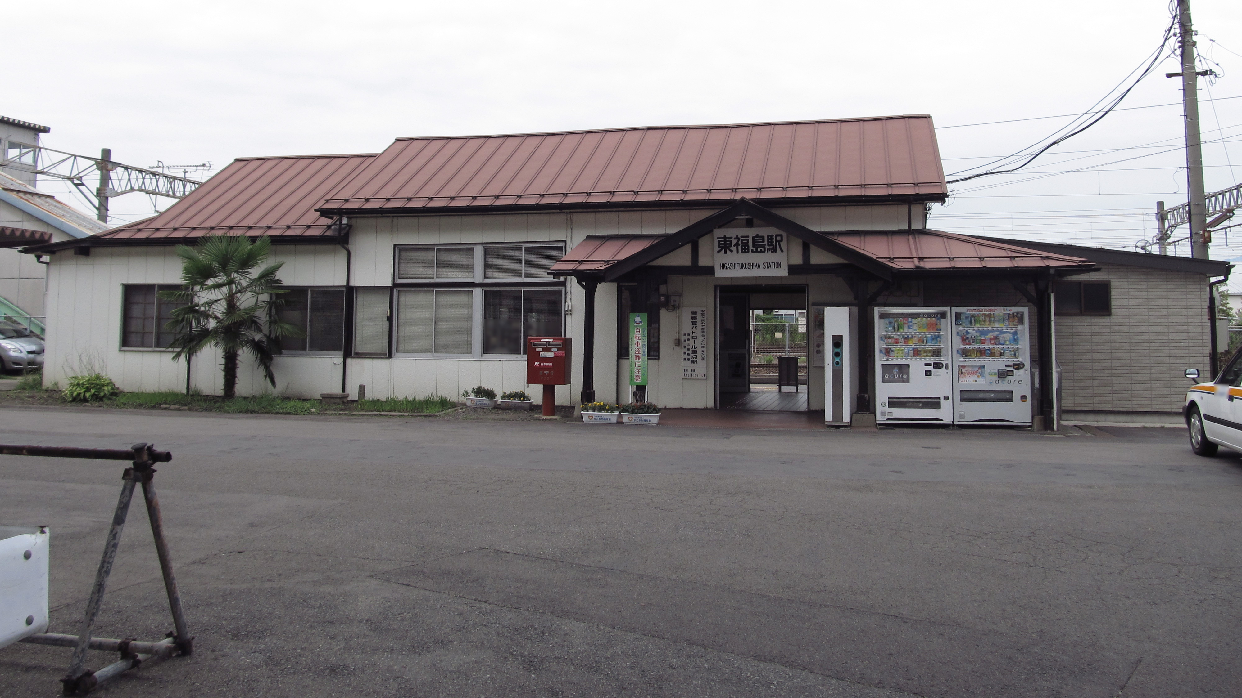 The building of Higashi-Fukushima Station on the Tōhoku Main Line in Fukushima city, Fukushima prefecture, Japan